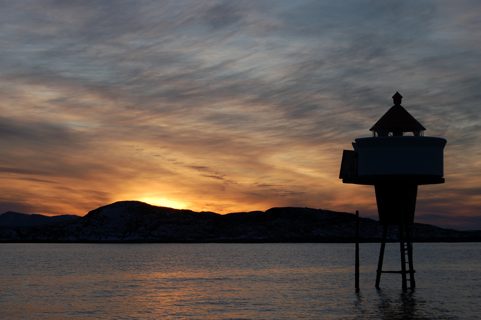 This picture was taken on Christmas Day, when we went out by boat to catch lobsters and crabs. It was freezing cold and my camera was low on battery, so I was happy to get this picture.